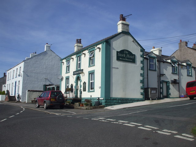 The Stork Hotel, Rowrah, near to Rowrah, Cumbria, Great Britain.